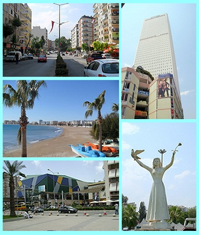 Photos used in this montage(Clockwise from top): 1-Toroslar, Mersin.jpg 2-126 Mersin.07.2006 resize.JPG 3-131 Mersin.07.2006 resize.JPG 4-Mersin Forum Attaturk.jpg 5-Atakent Susanoğlu Mersin Province.JPG